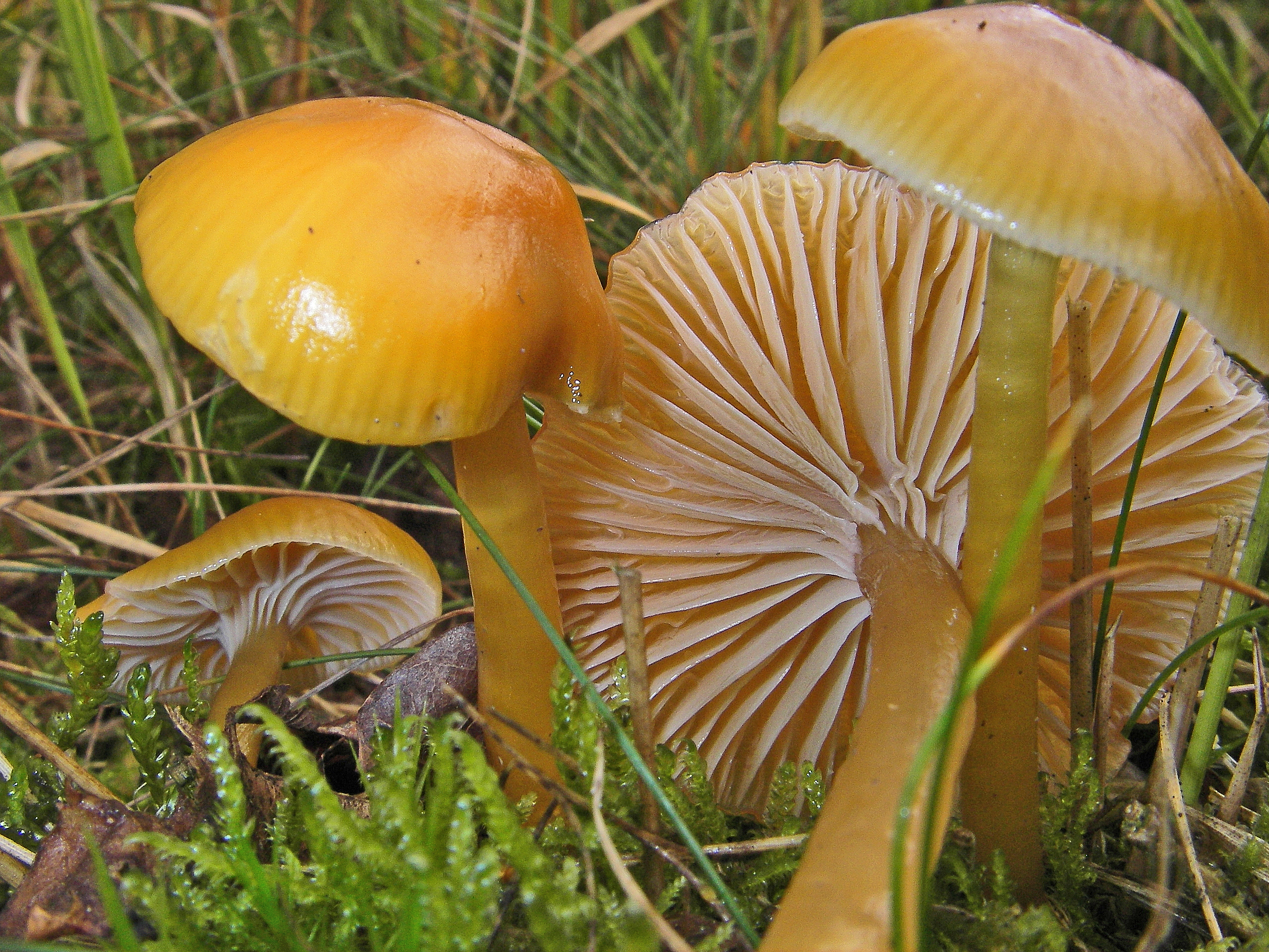 The making of this document was supported by the Community-Budget of Wikimedia Germany.